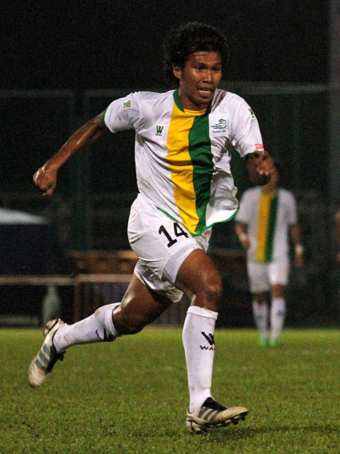 Rosman Sulaiman appearing for Woodlands Wellington in a pre-season friendly against SAFFC on 9th January 2013.